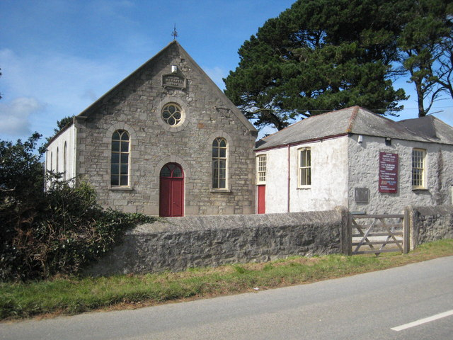 Baldhu Chapel Now known as Baldhu Christian Chapel but built in 1889 as Baldhu Wesleyan Chapel.